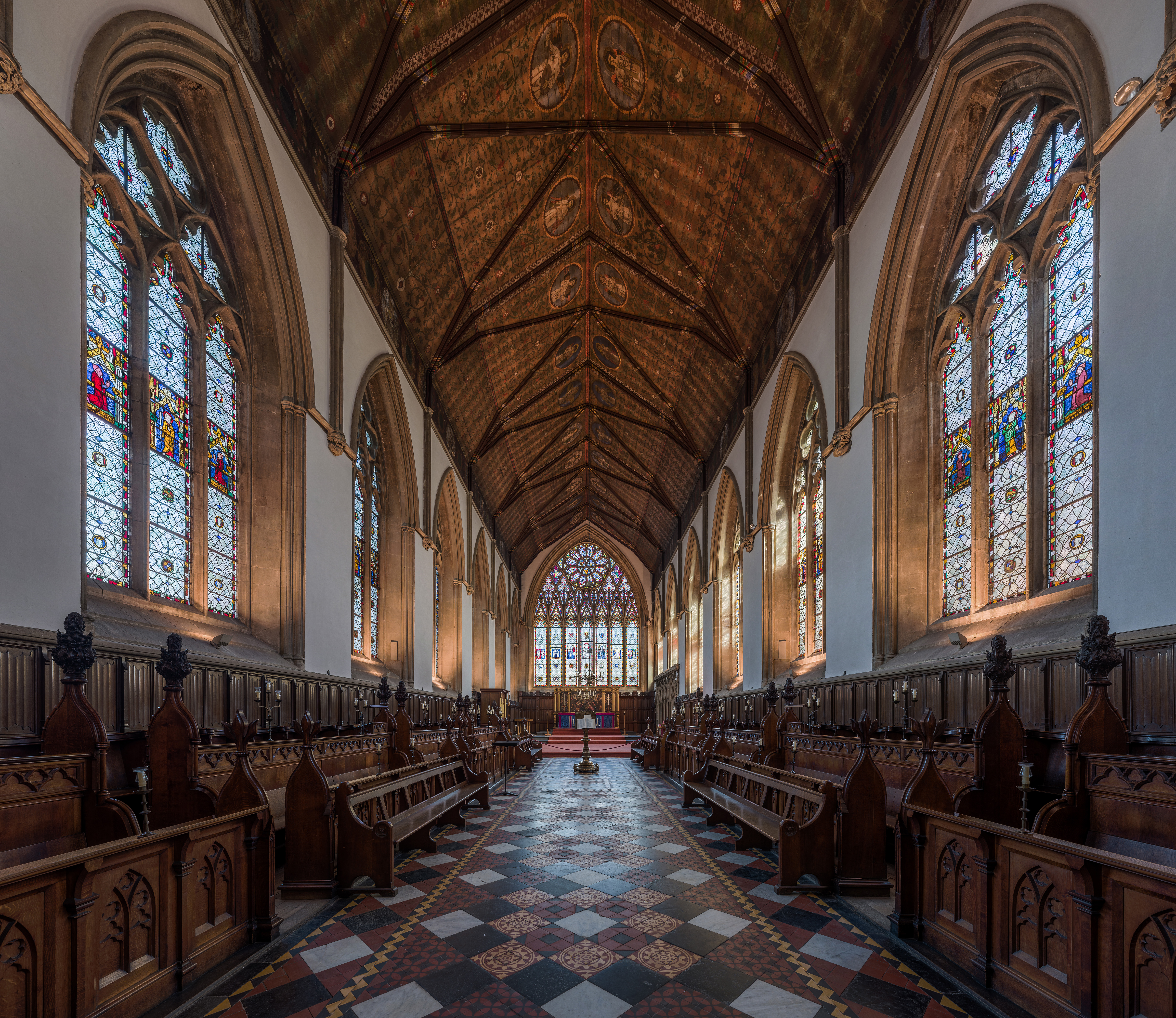 The interior of Merton College Chapel in Oxford, England.